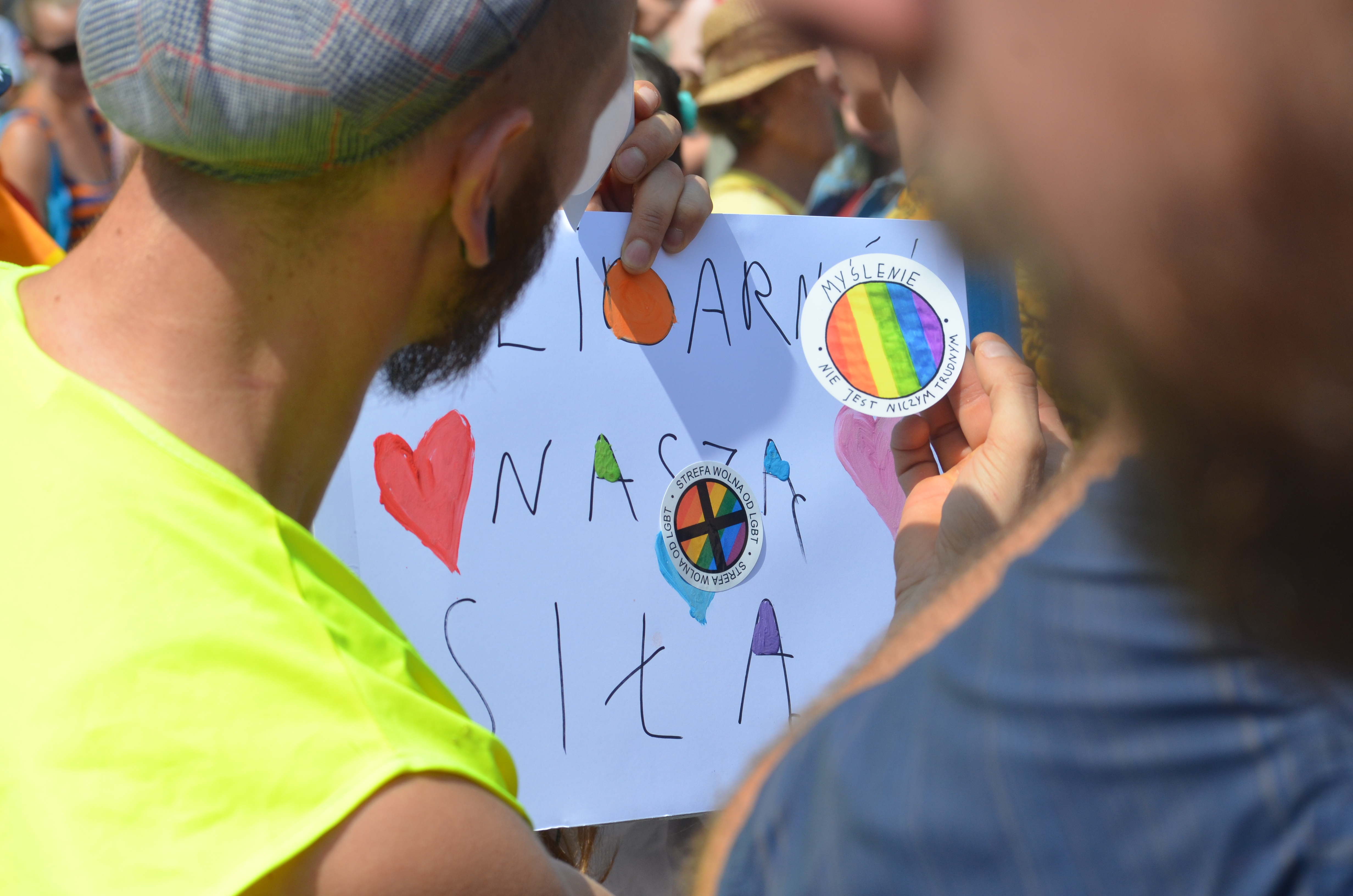 BB against Violence, Solidarity with Białystok